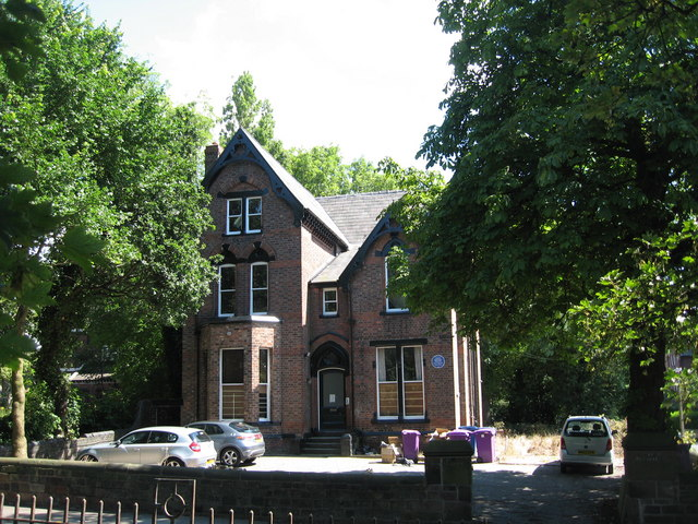 28 Ullet Road, John Brodie's House John Brodie, best known as the designer of the Mersey Tunnel, was also a town planner and the inventor of the goal net. First used in a football match in 1890 in a game between Nottingham Forest and Bolton Wanderers, it proved an instant success. Brodie served as Liverpool's City Engineer 1898-1926 making several proposals for the improvement of the city's roads, including the construction of an inner ring road - Queen's Drive. He also patented the idea of prefabricating houses from reinforced concrete slabs and introduced the idea of using central reservations for tramcars. The first reserved track, Edge Lane to Broad Green, was completed in 1914 and was followed by many others. We have him to thank for the many wide, tree-lined avenues in Liverpool's suburbs, one of these, Brodie Avenue, is named after him.